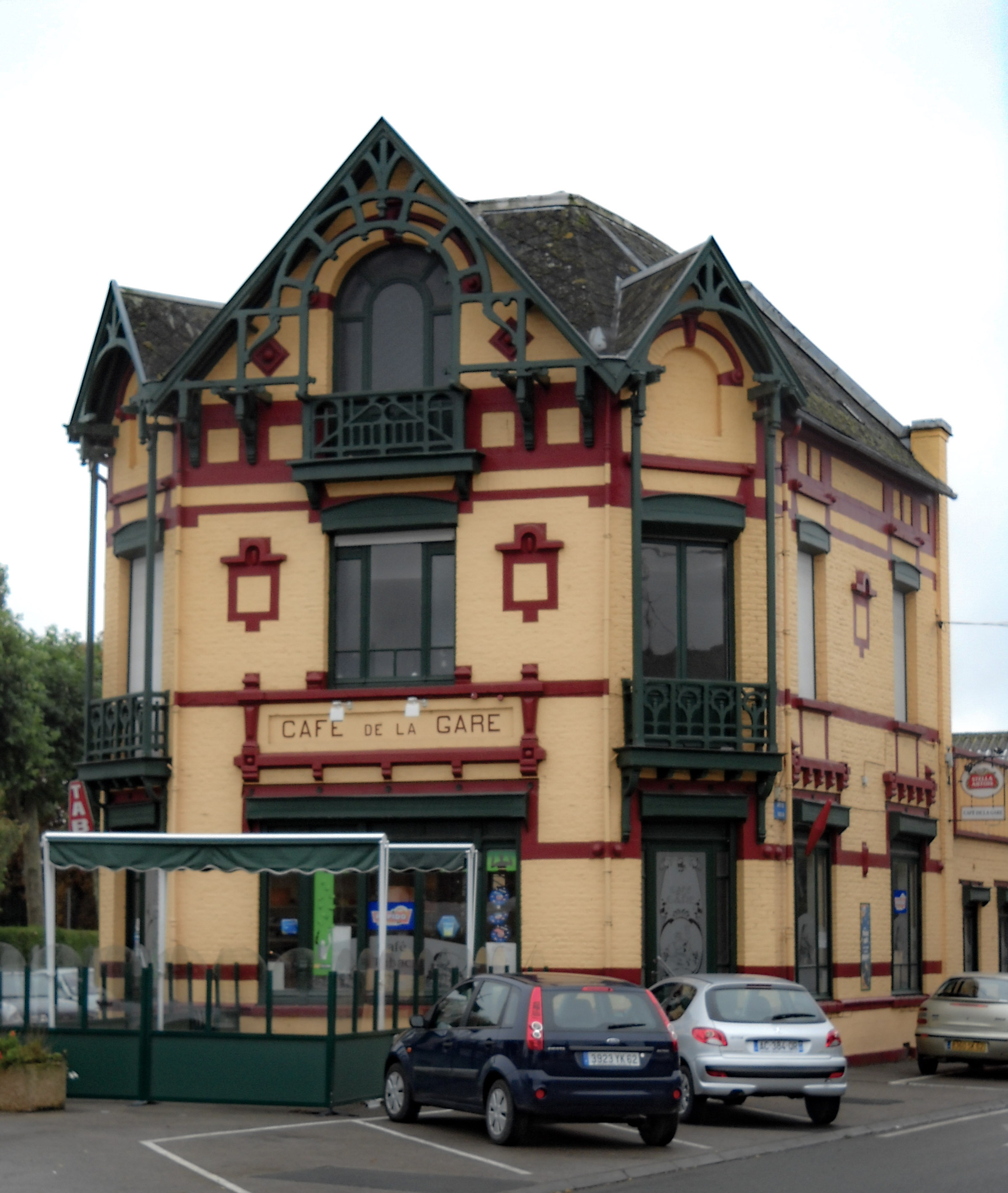 Café de la Gare, in Aire-sur-la-Lys, Pas-de-Calais, France.